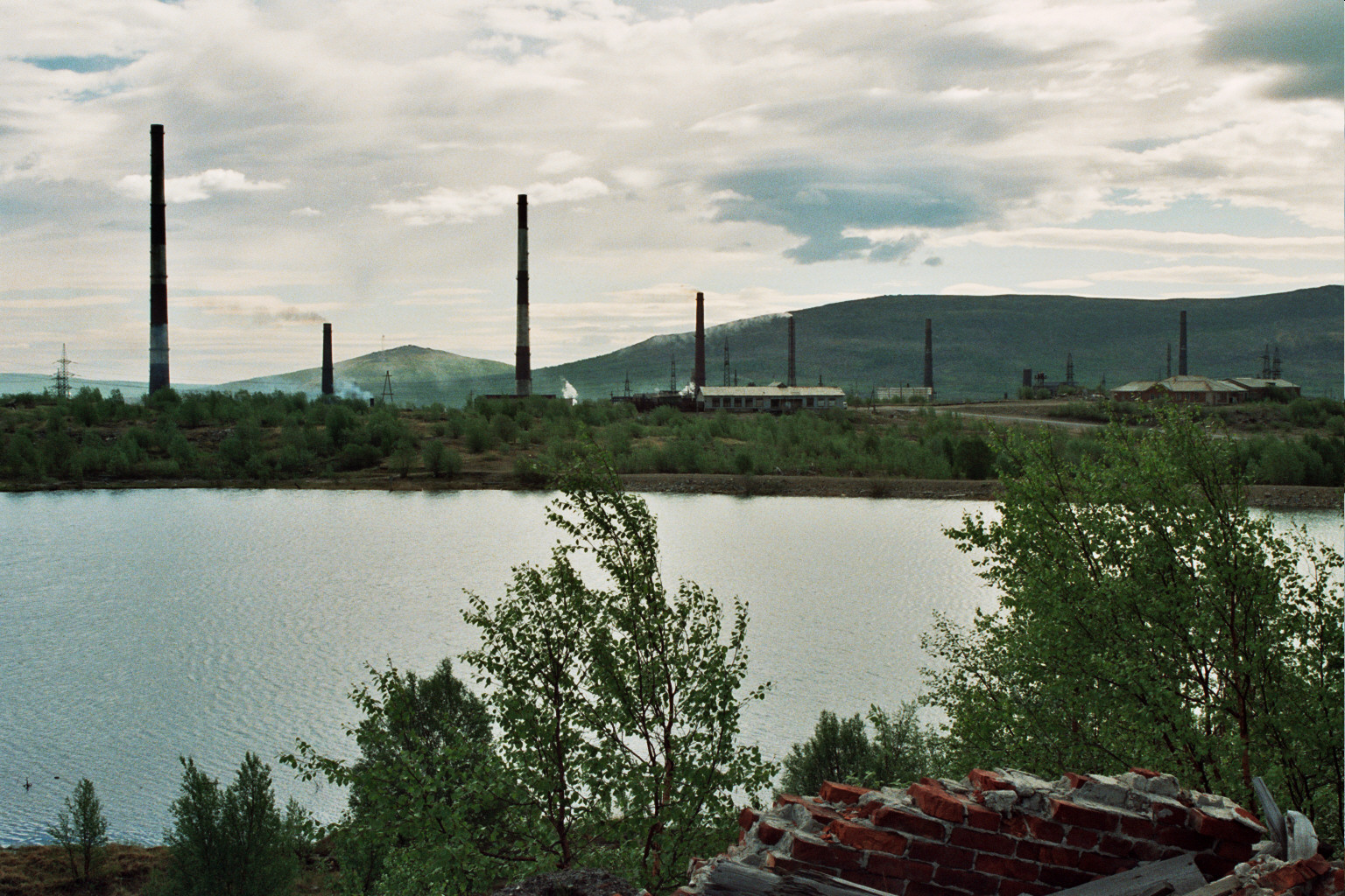 Nickel and copper producing factories in Monchegorsk